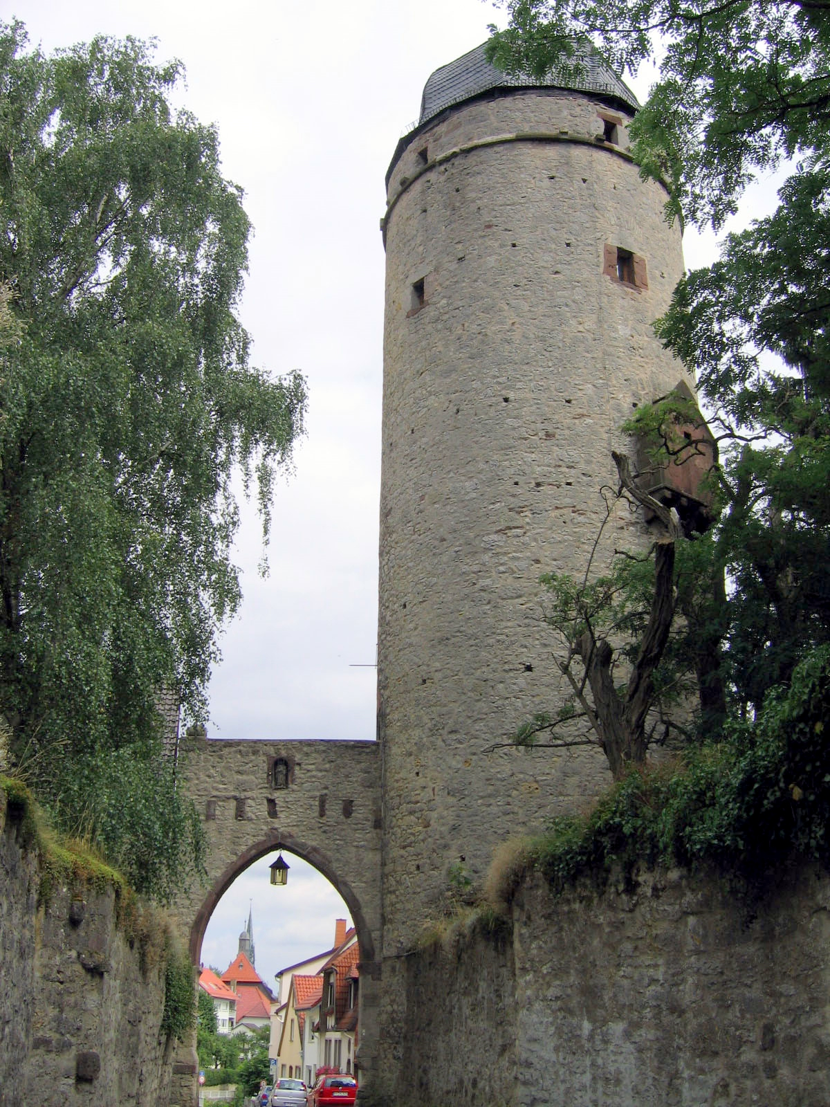 The Sackturm (Saxon Tower) in Warburg, a watch tower at the inner gate with a stone parapet, built in 1443. To the left of it the Sacktor (Saxon Gate) or Petritor, built towards the end of the 13th century or the beginning of the 14th century.